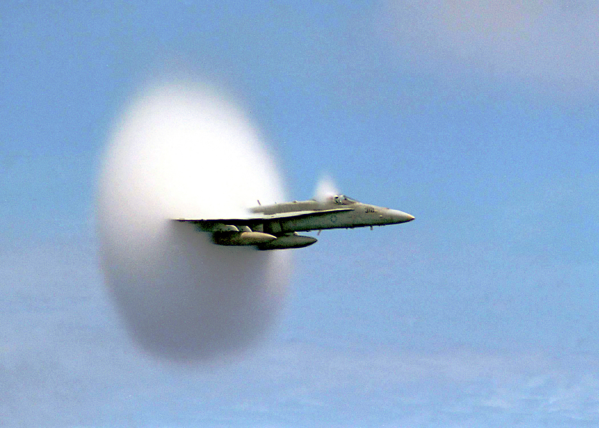 Off the coast of Pusan, South Korea: An F/A-18C Hornet assigned to Strike Fighter Squadron One Five One (VFA-151) breaks the sound barrier in the skies over the Pacific Ocean. VFA-151 is deployed aboard USS Constellation (CVN 64). The image was an Astronomy Picture of the Day on August 19, 2007.